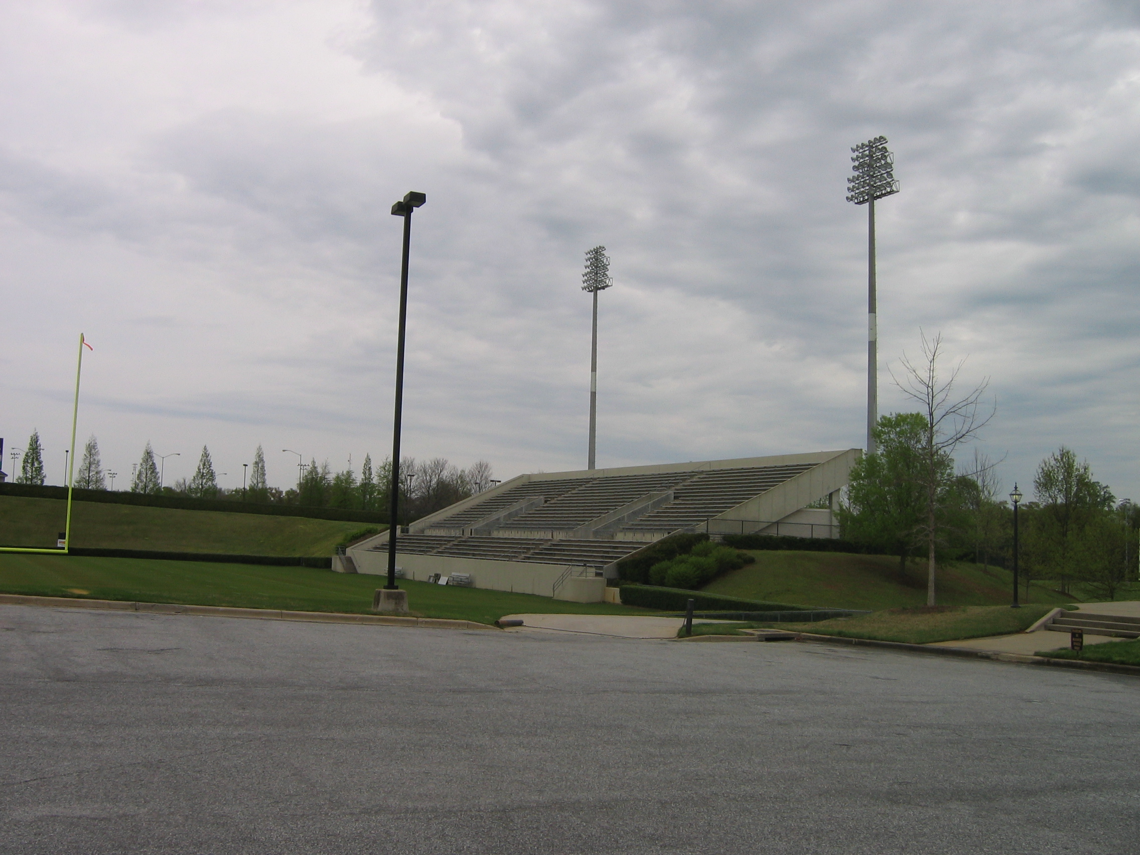 Football & Basketball Facilities Wofford Football Stadium